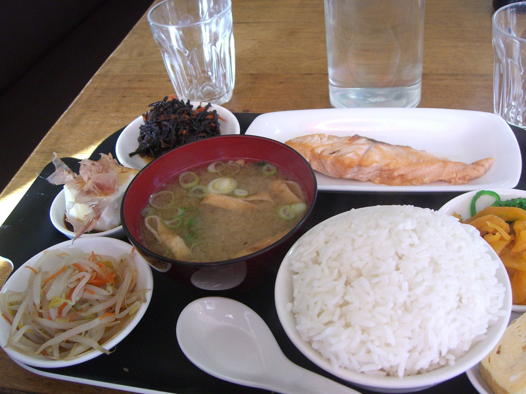 Japanese Breakfast - Asatsuki AUD12A nice change from Western fry-up breakfasts!Including hijiki seaweed salad and shaved bonito flakes (katsuobushi) on beancurd.Asatsuki458 Waverley Rd Malvern East 3145(03) 9572 0200Japanese Breakfast - Asatsuki